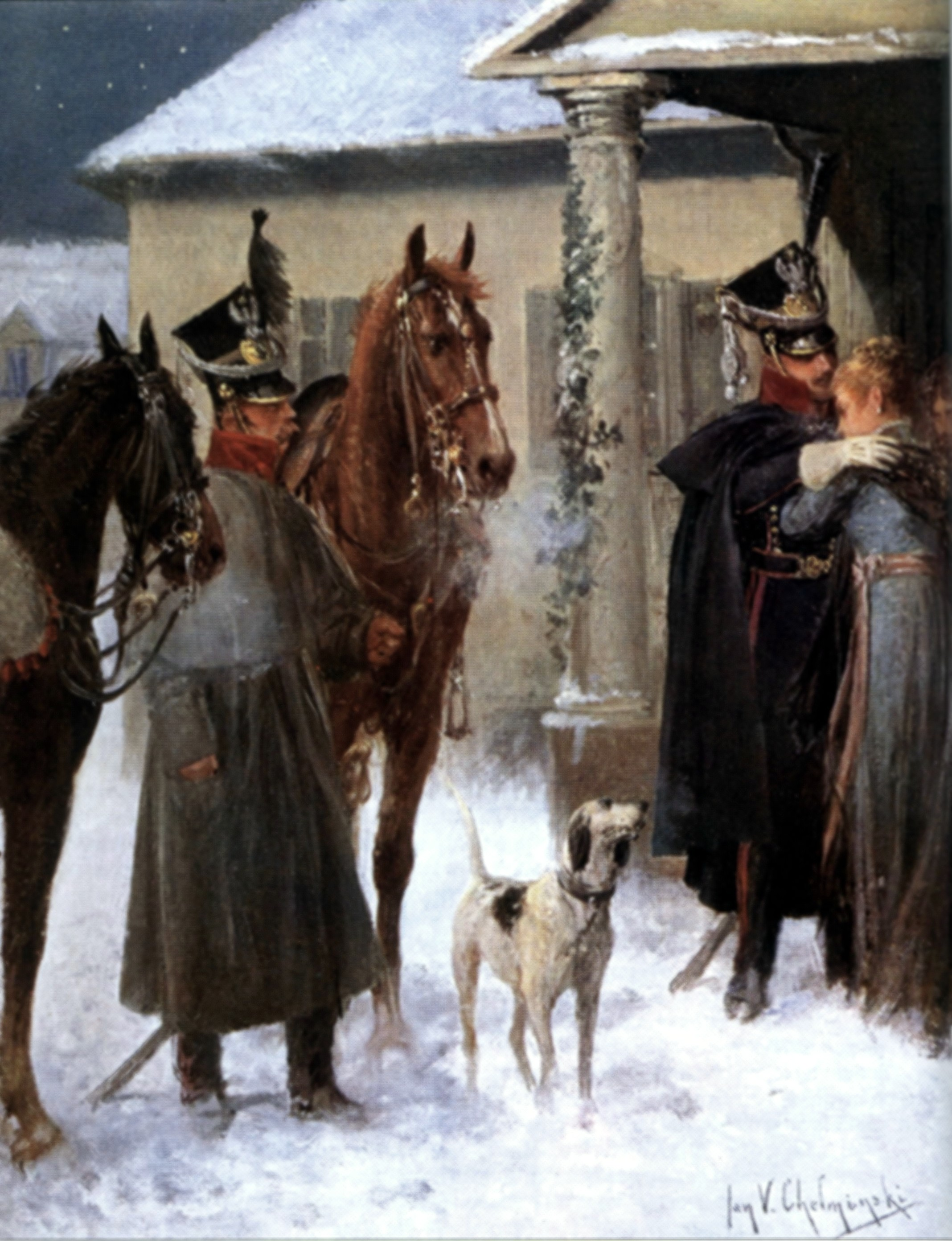 8th Infantry Regoment of Duchy of Warsaw